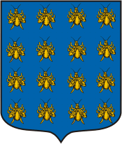 Medyn (Kaluga oblast), coat of arms (1777)